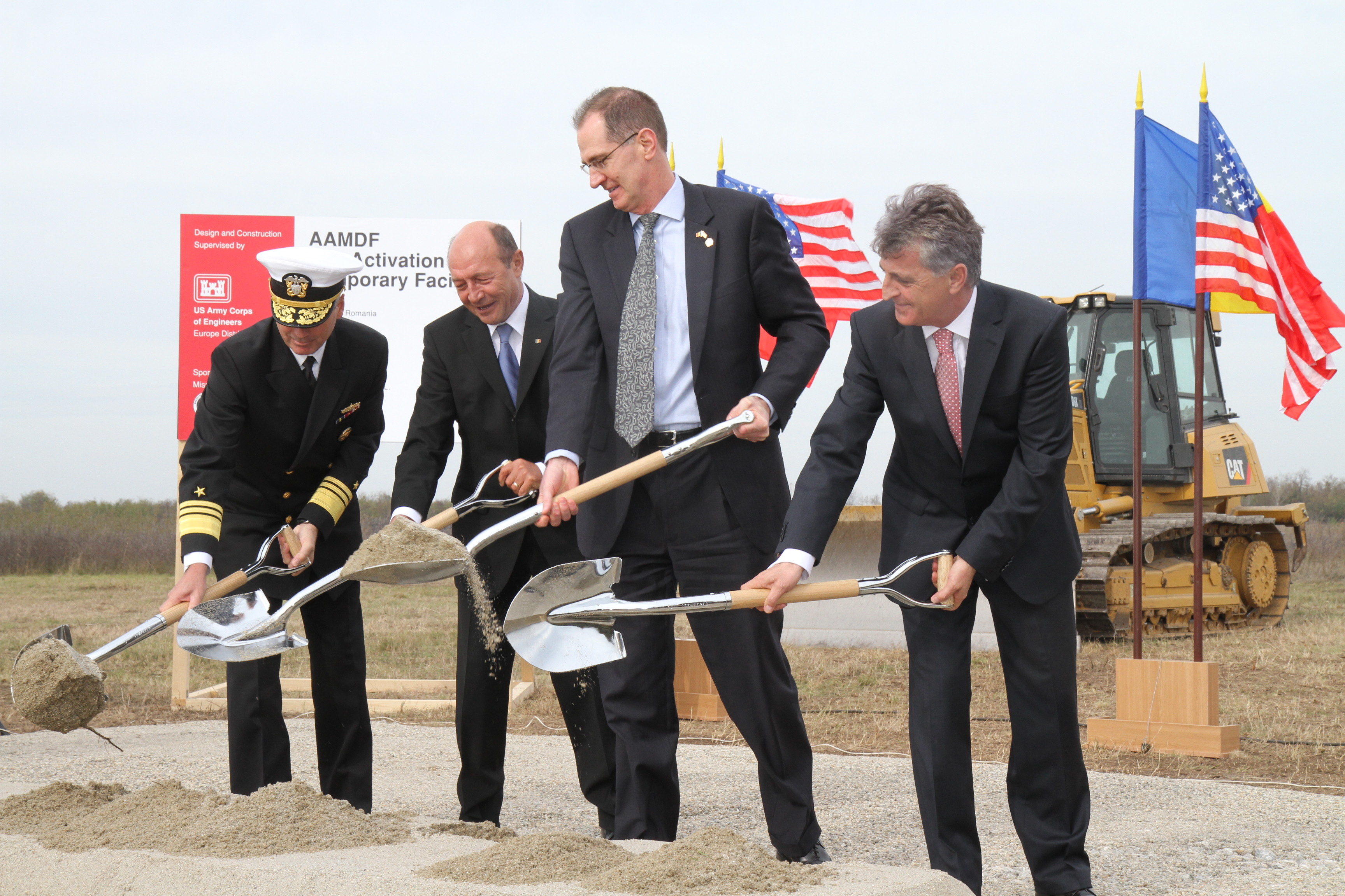 U.S. and Romanian officials break ground on the Aegis Ashore Missile Defense Complex during a formal ceremony Monday at Deveselu Air Base, Romania. Pictured, from left, are: Vice Adm. James Syring, the Missile Defense Agency director; Romanian President Traian Băsescu; U.S. Undersecretary of Defense for Policy James Miller; and Romanian Defense Minister Mircea Dusa.